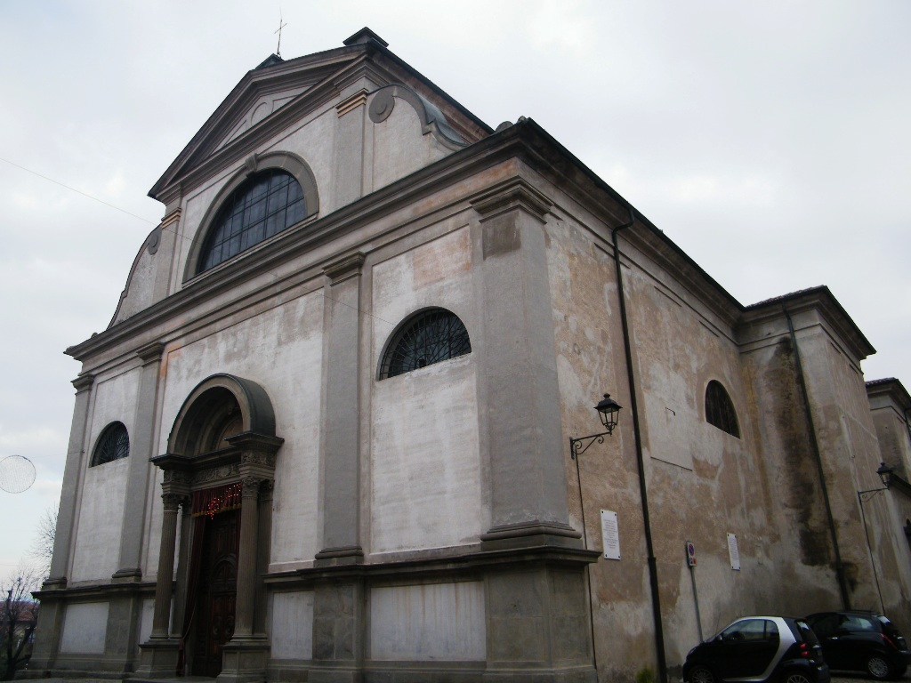 Church of st Mary of assumption, Rovato